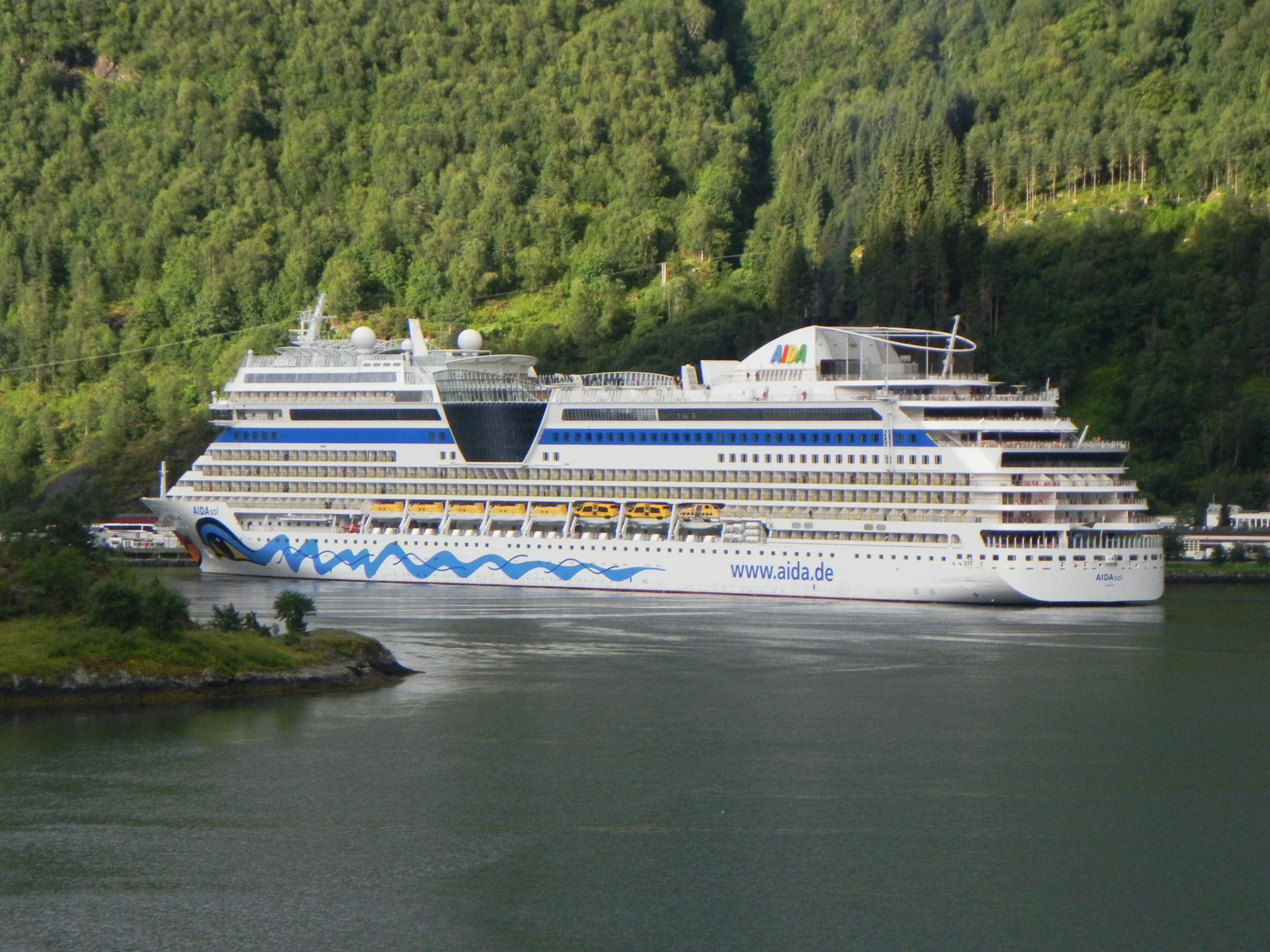 Cruise ship AIDAsol in the port of Hellsylt (Norway) 5th August 2013